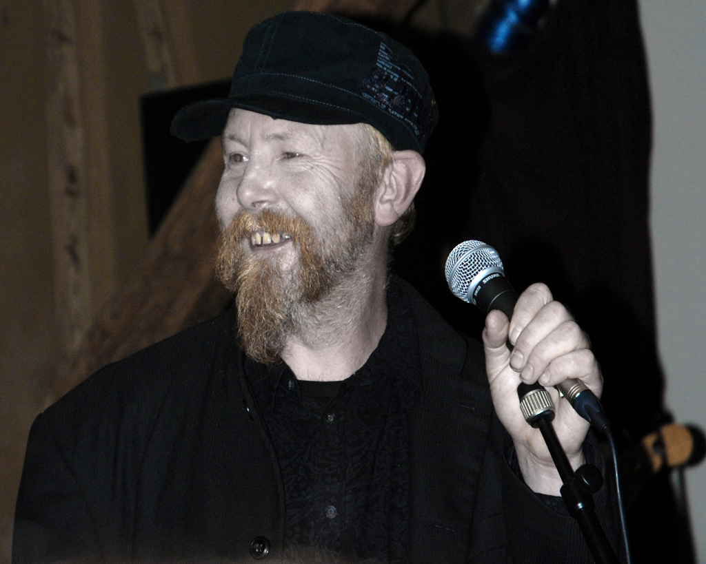 Steve Stapleton